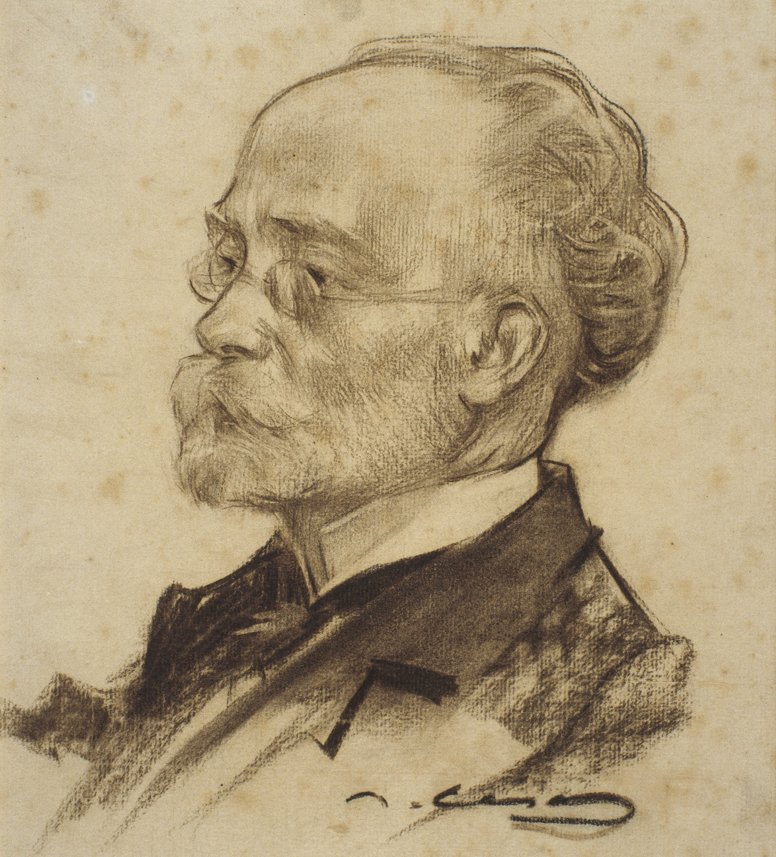 Portrait by Ramon Casas conserved at MNAC in Barcelona.